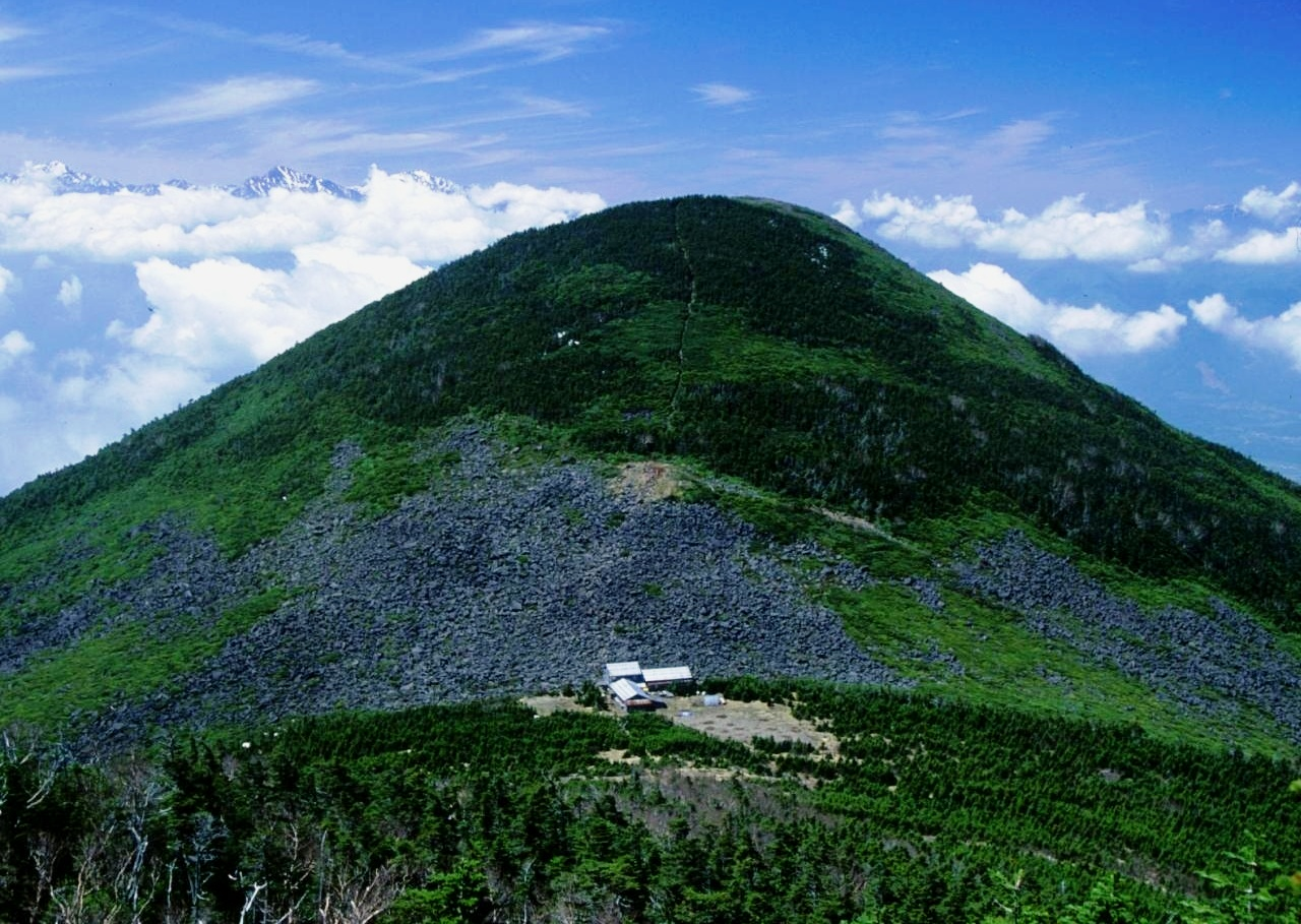 Mount_Amigasa_from_Mount_Gongen_1994-5-14